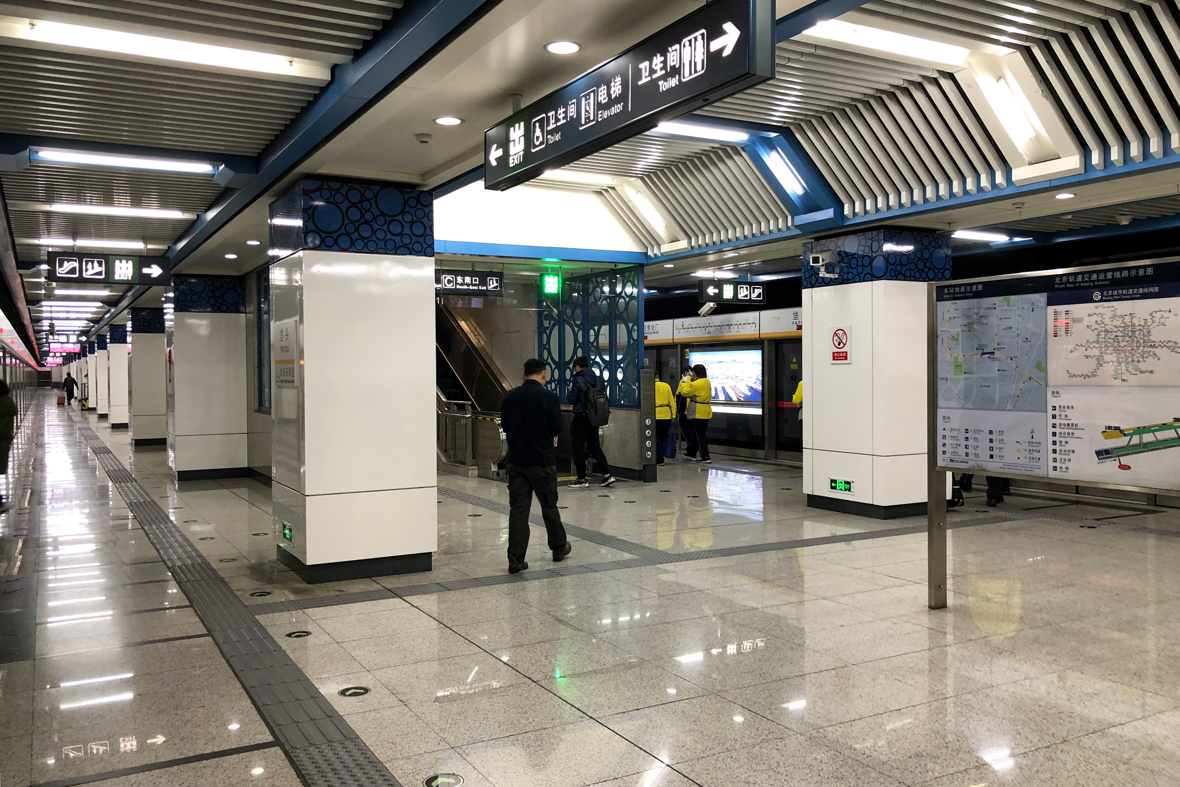 Unfamiliar? Only opened in 2018! By the way, don't pronounce this station name in French, or...